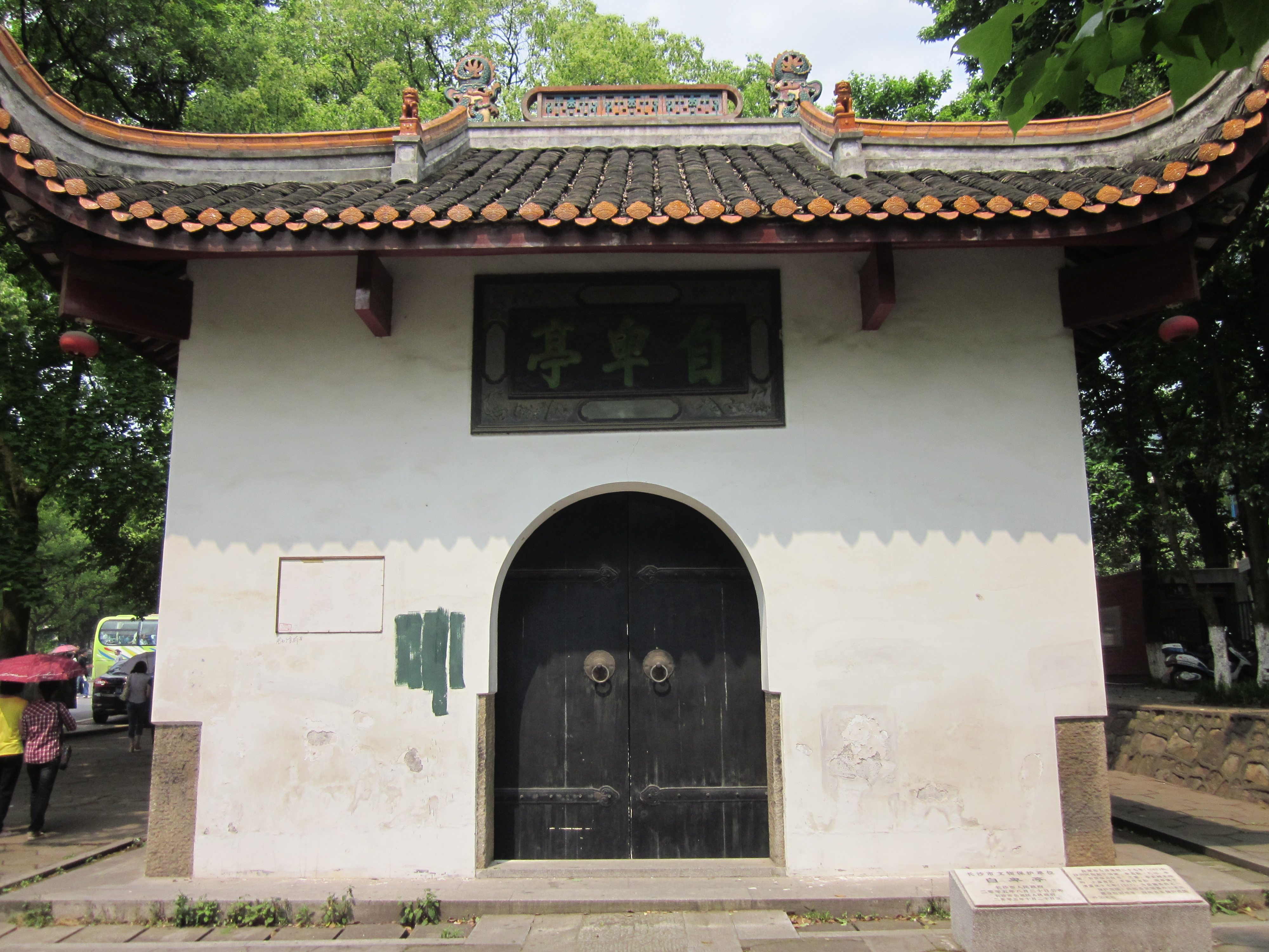 The Zibei Pavilion at the foot of Yuelu Mountain, in Changsha, Hunan, China. The name of "Zibei" cited from "The Doctrine of the Mean", one of the Four Books.